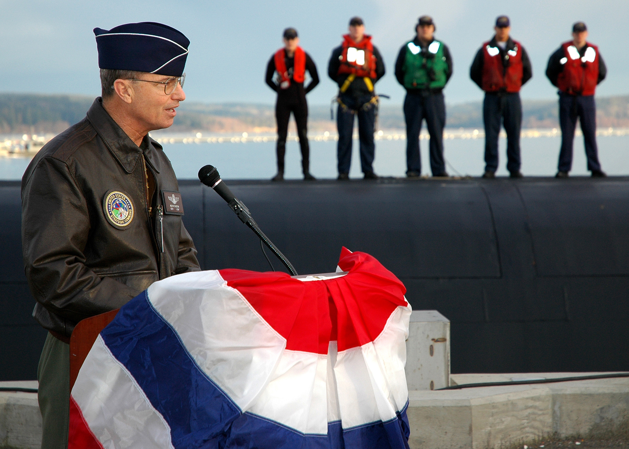 Blue and Gold crews assigned to the ballistic-missile submarine USS Louisiana (SSBN 743) are presented the 2006 Omaha Trophy Submarine Ballistic Missile Award by Gen. Kevin Chilton, commander of U. S. Strategic Command. The award is presented to the ballistic submarine crews that demonstrate superior performance and commitment to strategic excellence.